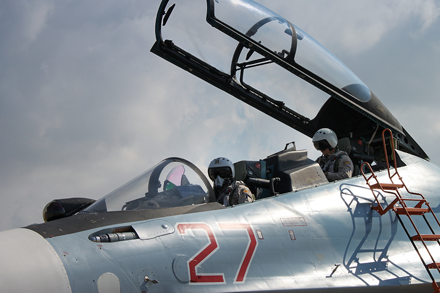 Russian military aircraft at Latakia, Syria